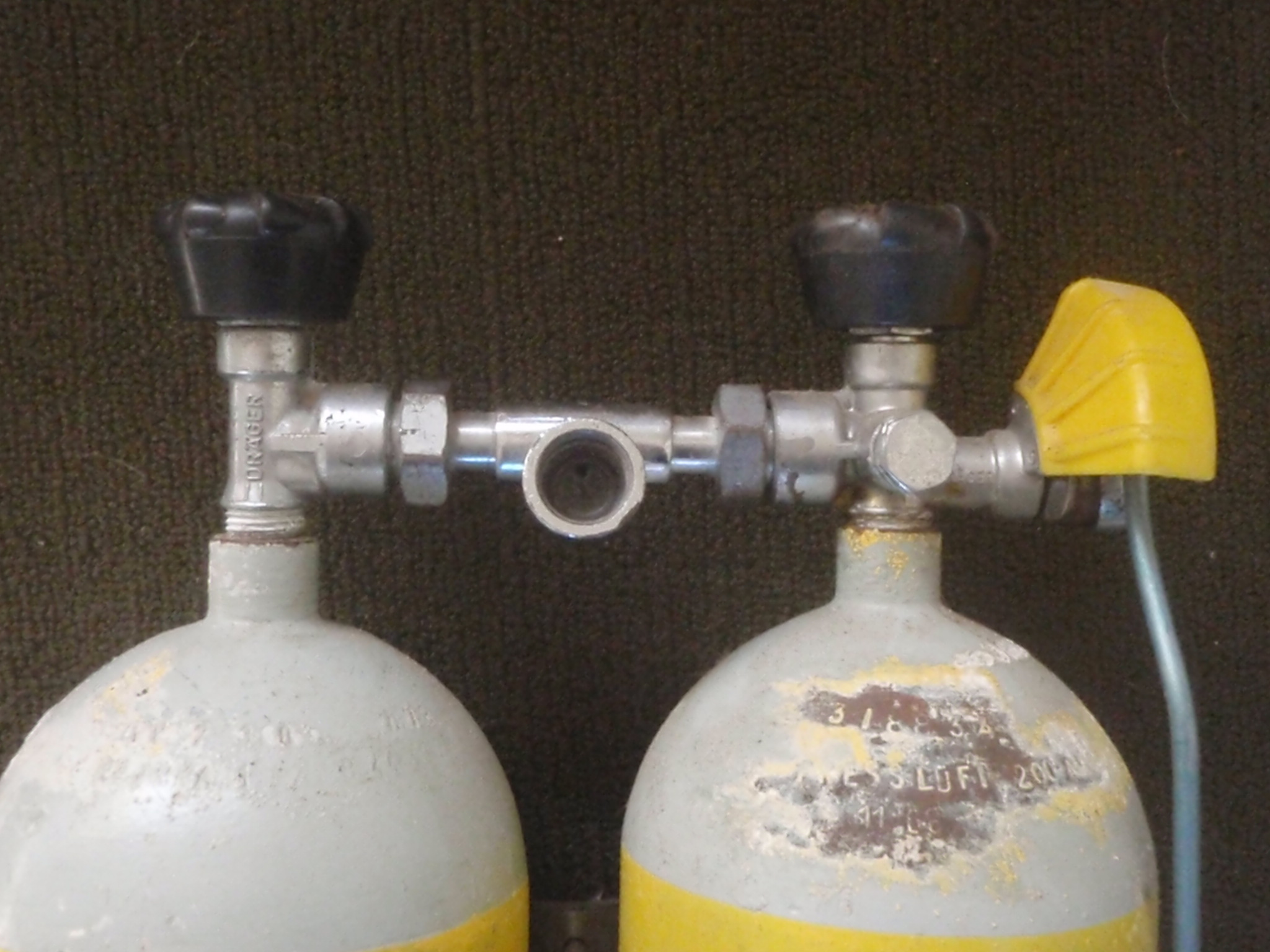 Draeger 200 bar taper thread DIN cylinder valves with reserve lever assembled with manifold on twin 7 litre steel cylinders